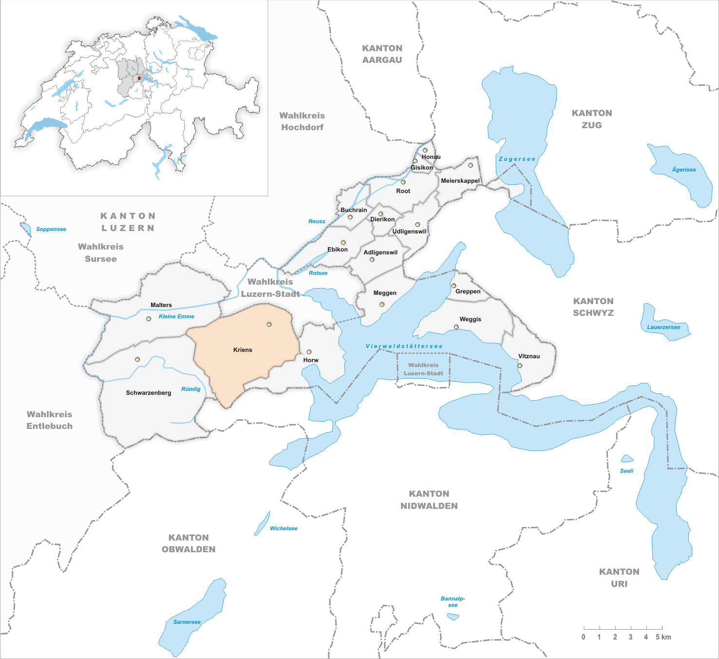 Municipality Kriens